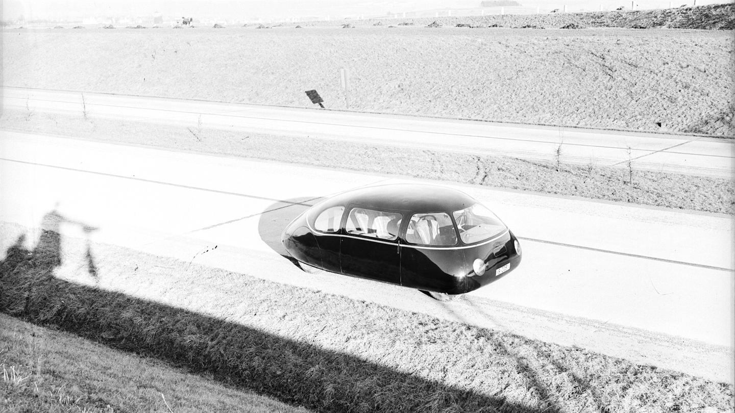 Test drive on the highway During 1939, the Schlörwagen was put through its paces in a series of tests conducted on the recently completed highway near Göttingen, the forerunner of today’s A7. The production car on which it was based, a Mercedes 170 H, achieved a maximum speed of around 105 kilometres per hour, while the aerodynamic version recorded a remarkable 134 to 136 kilometres per hour. The Schlörwagen consumed eight litres of fuel to drive 100 kilometres, while the production car used 10 to 12 litres – equivalent to a reduction of between roughly 20 and 35 percent.